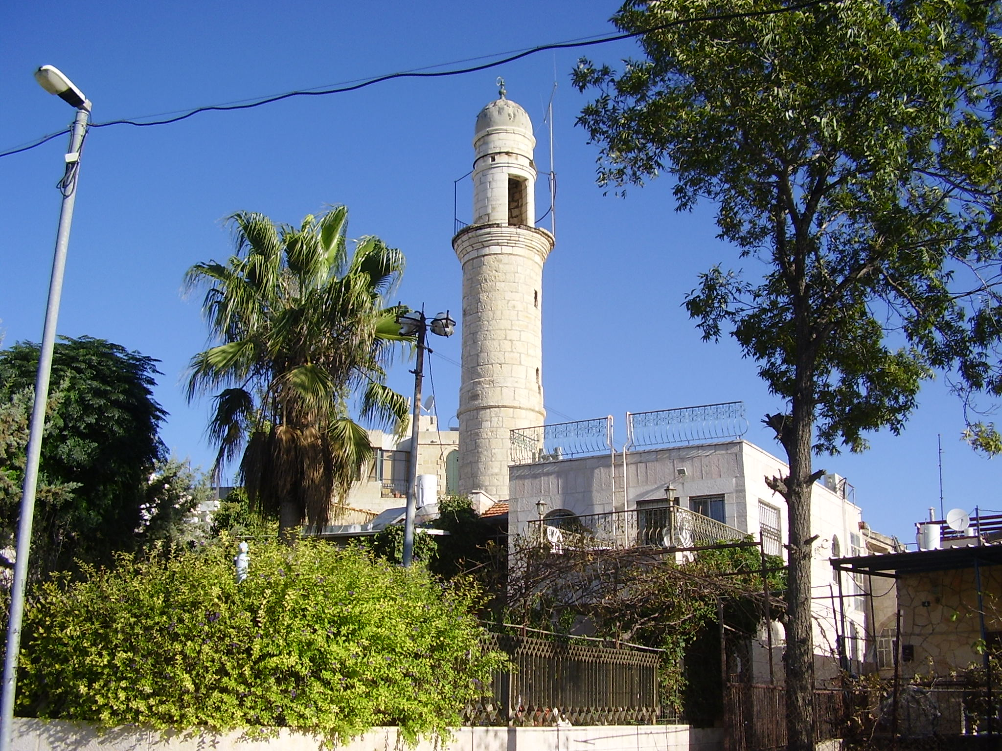 malha mosque minaret in jerusalem צריח המסגד במלחה בירושלים